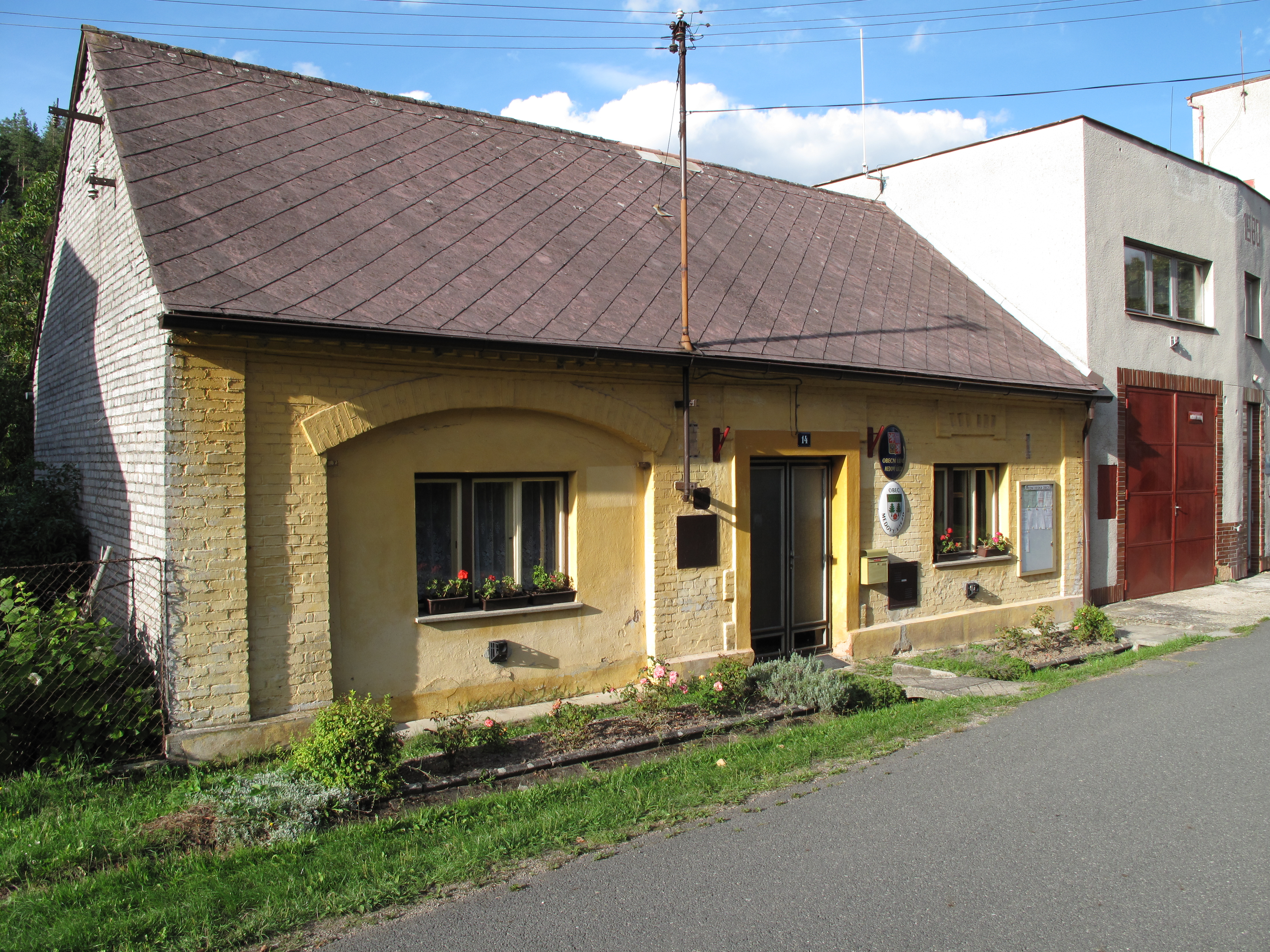 Municipal office in Medový Újezd village, Rokycany District, Czech Republic.